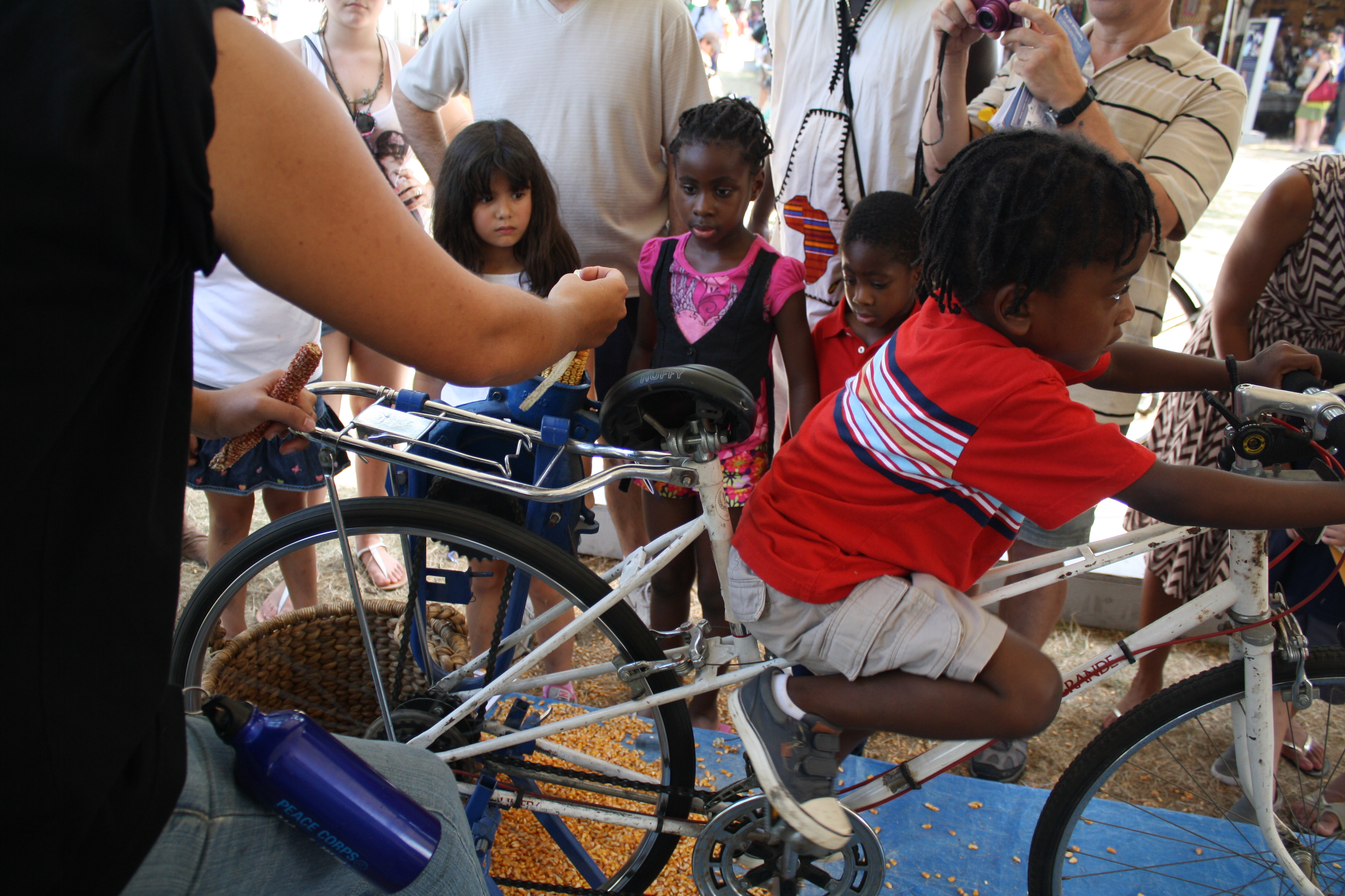 45th Annual Smithsonian Folklife Festival . National Mall . Washington DC . Sunday afternoon, 10 July 2011 . Elvert Barnes Photography The Peace Corps / 50th Years of Promoting Peace & Friendship Appropriate Technology Bicycle-Powered Maize Sheller Kofi Taha, Watertown, Massachusetts, D-Lab/MIT Visit Smithsonian Folklife Festival at Visit Elvert Barnes 45th Smithsonian Folklife Festival 2011 docu-project at